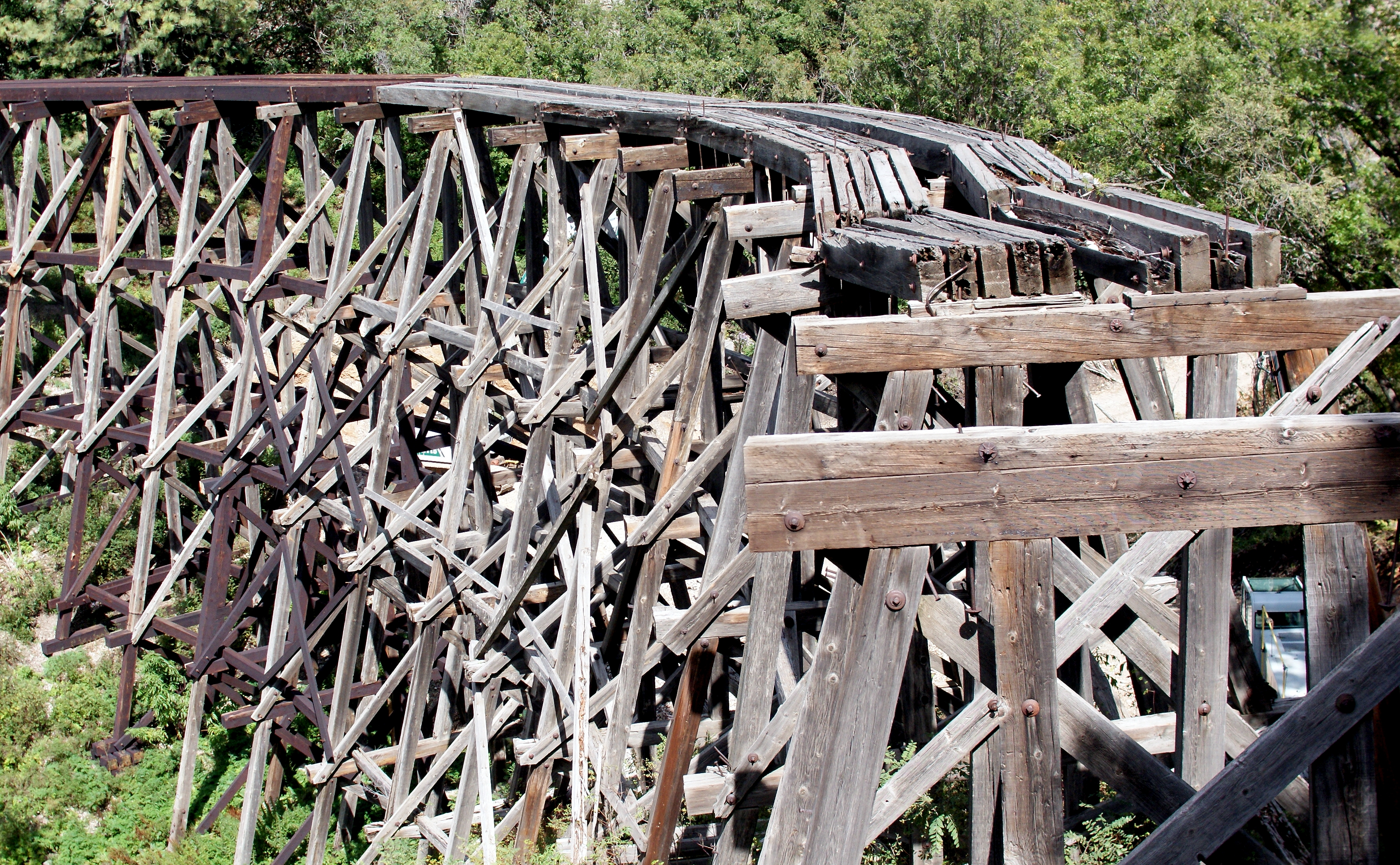 On the far side of Mexican Canyon Trestle, on a railroad grade now trail, is a lookout/embankment that lets you get up close and personal with the trestle. Personally, while Mexican Canyon Trestle looks great, I don't think the lookout provides a good view. Even with the mile of walking up and down a hill to get there. As of 2010, renovation continues—dark-colored timbers are new, while the bleached-looking weathered (obviously) are original wood.